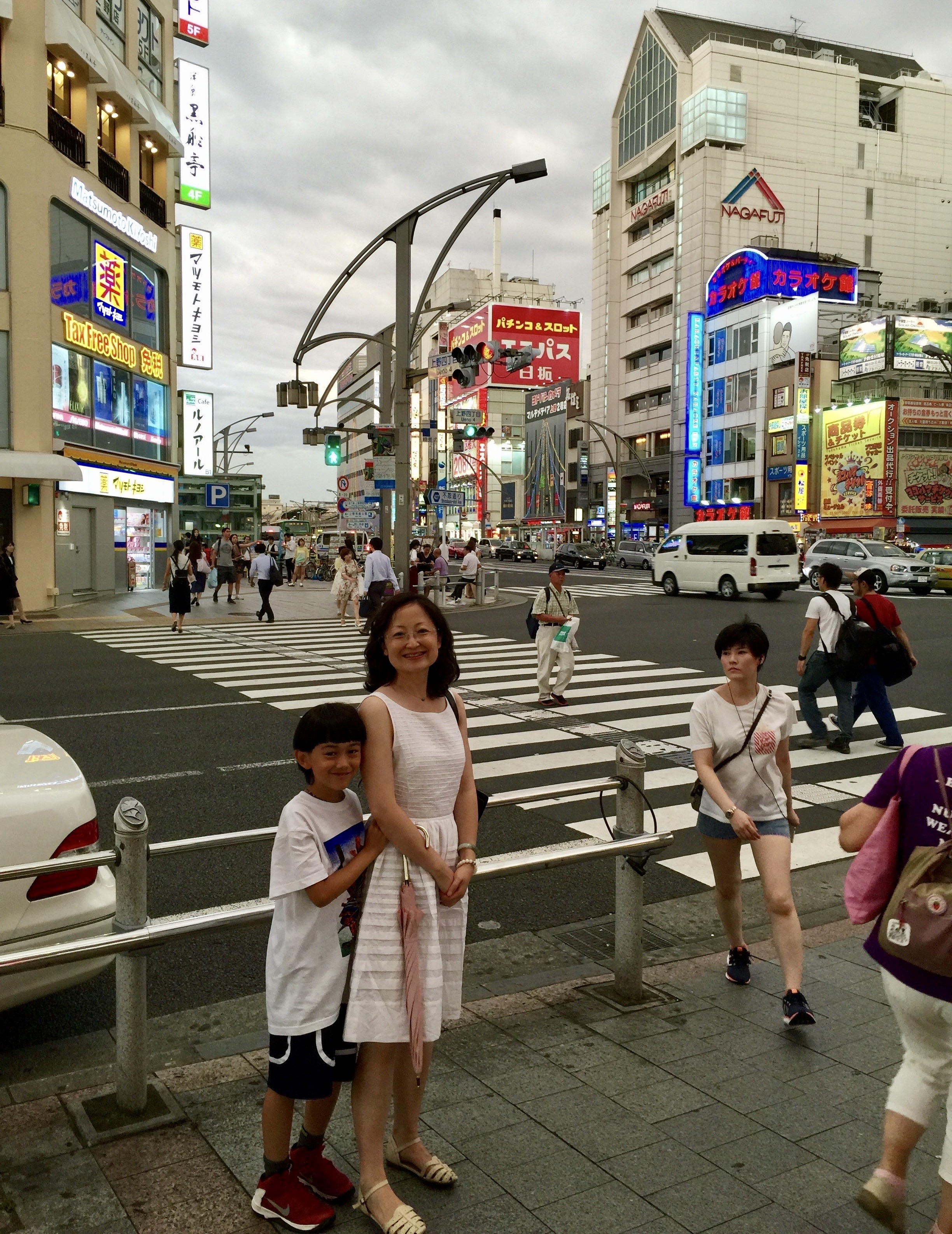 Qi Wang and her son Wyatt in Tokyo, 2016